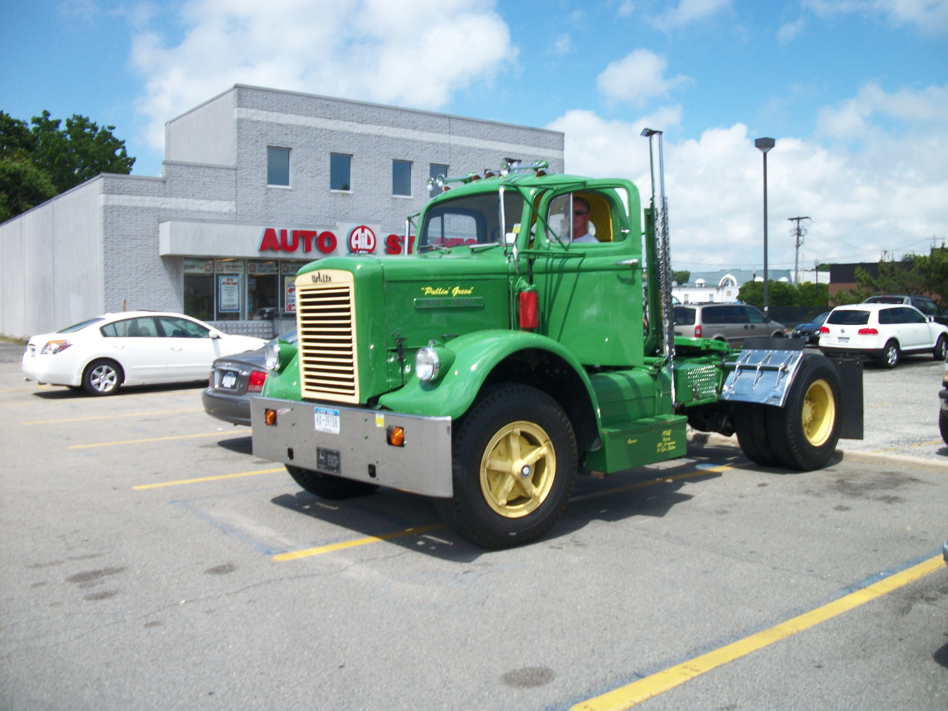 A collectible 1962 White Truck taken from the parking lot of an AID Auto Store on East Main Street in Patchogue, New York. I'm not sure of the model name, but this is a tractor-trailer without a trailer attached, and it's clearly a preserved model.